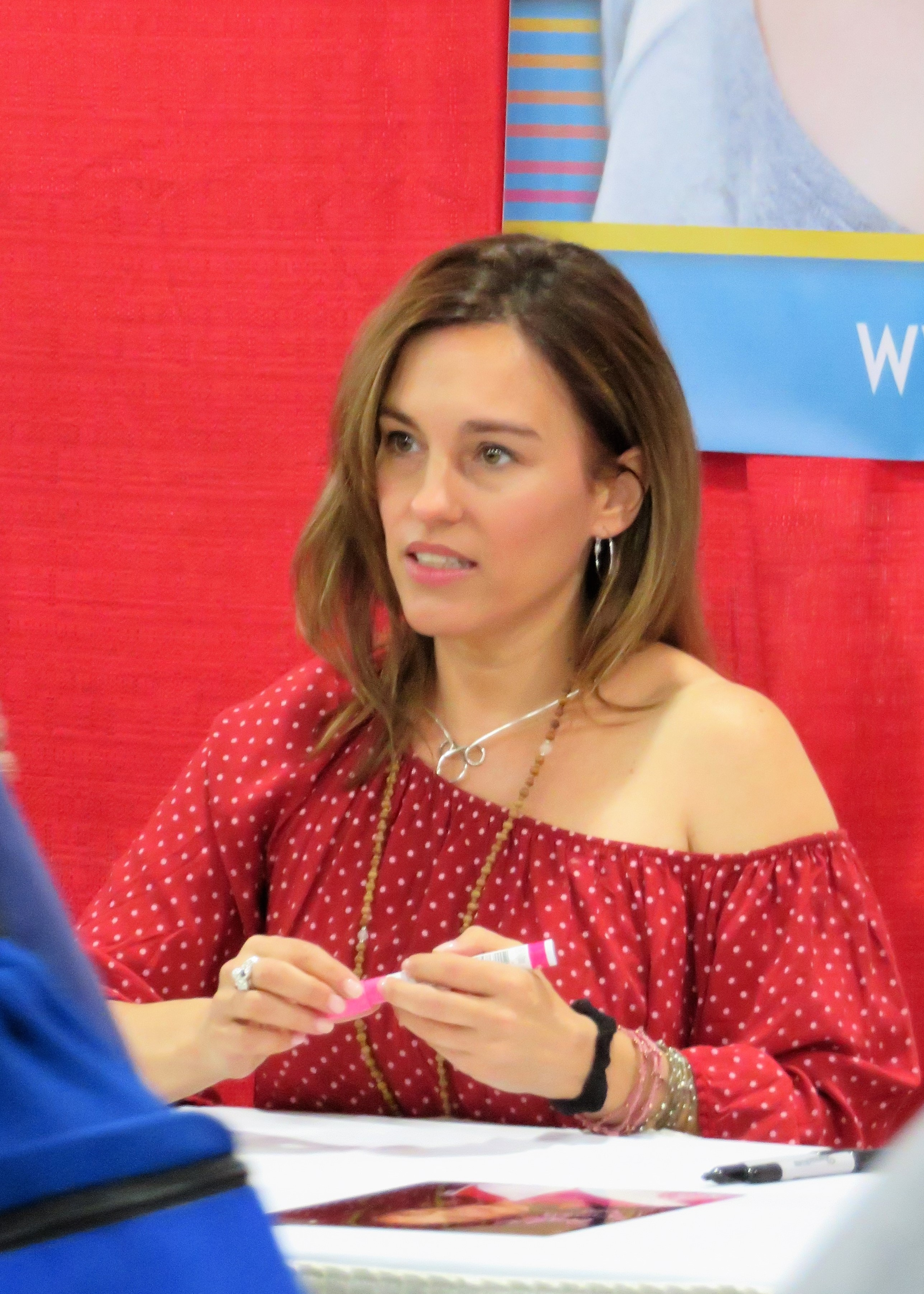 Amy Jo Johnson